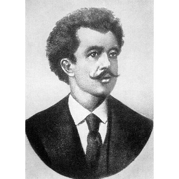 Elemér Szentirmay (b.: János Horváth, 1836-1908), hungarian composer